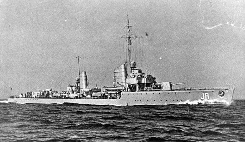 Torpedoboot "Jaguar" Torpedoboot "Jaguar" [Torpedoboote Typ 24, "Raubtier-Klasse".- "Jaguar" (JR) auf See. Ansicht der Steuerbordseite]